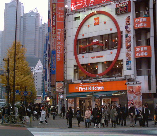 First Kitchen (fast food restaurant chain) Shinjuku-Minamiguchi shop in Nishi-Shinjuku, Shinjuku, Tokyo